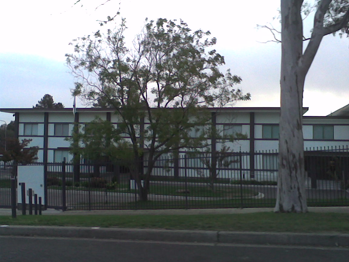 Embassy of Japan in Canberra, Australia